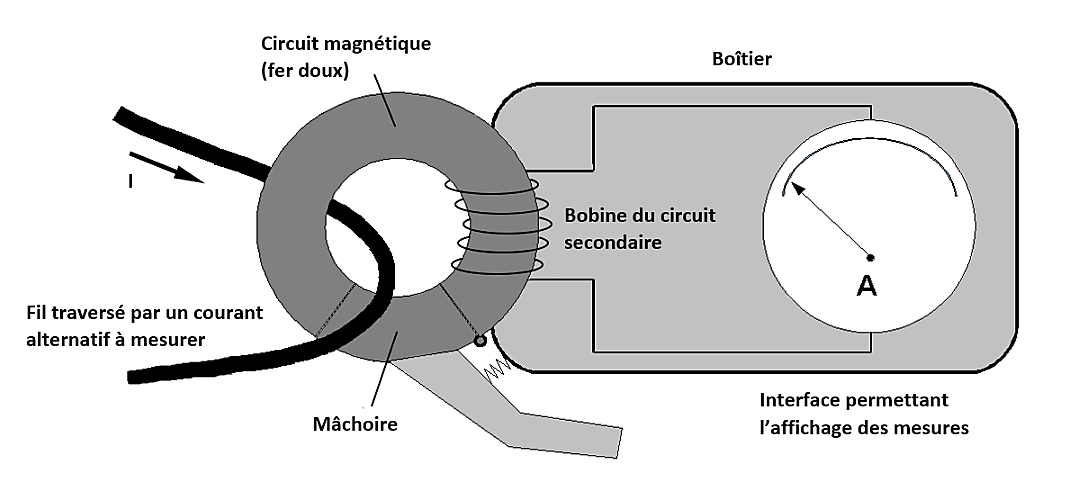 Clamp meter AC